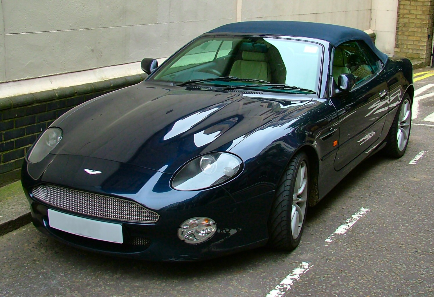 Aston Martin DB7 V12 Vantage Volante Date: 22nd June 2004 17:11 0 ISO: 200 Photograph: ed g2s • talk